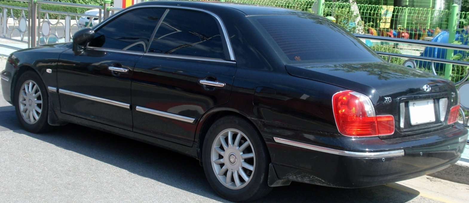 Hyundai New Grandeur XG